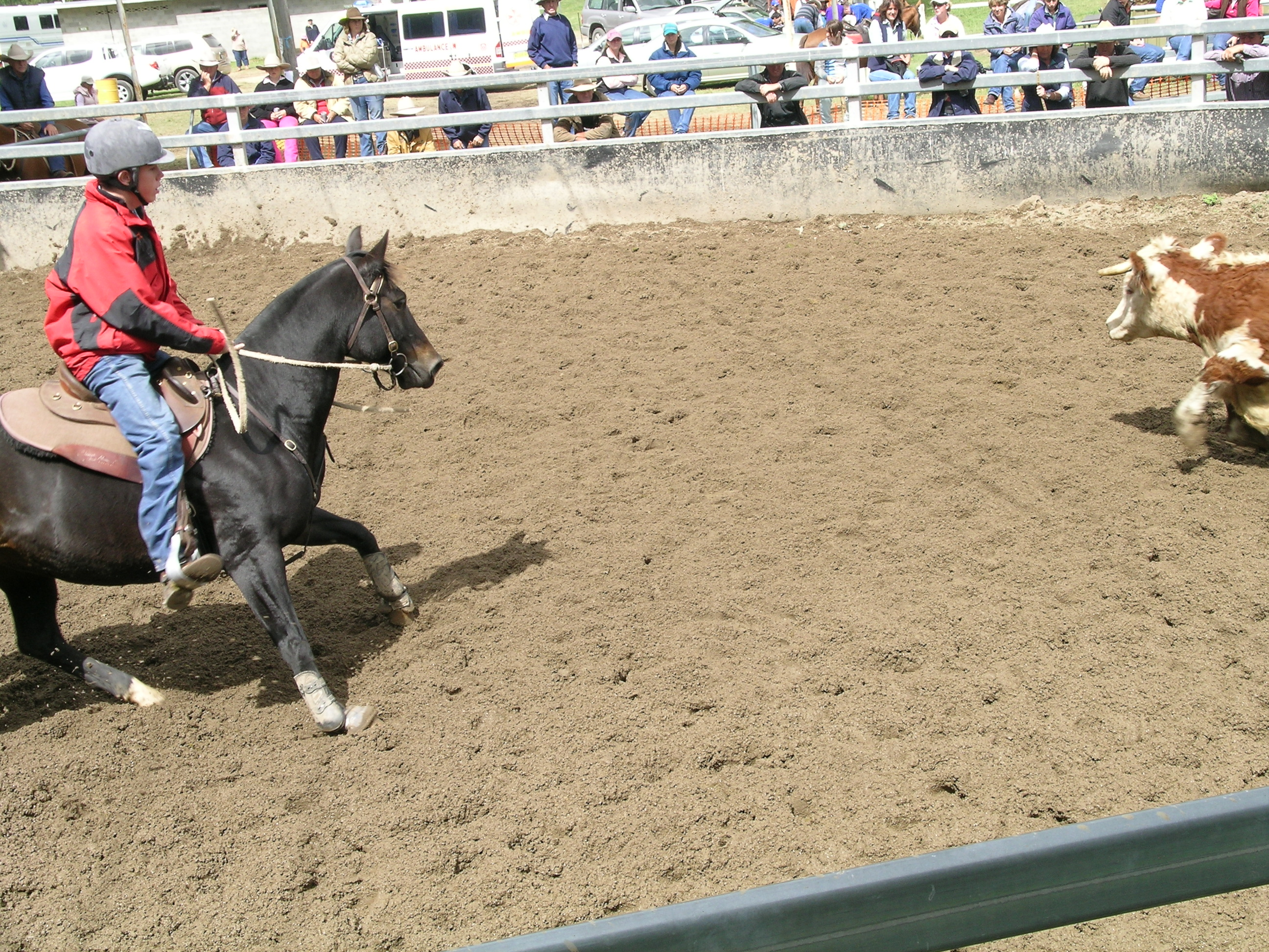 A junior, Ben McNaughton on Coco (a brown mare) cutting out in a campdraft at Walcha, NSW